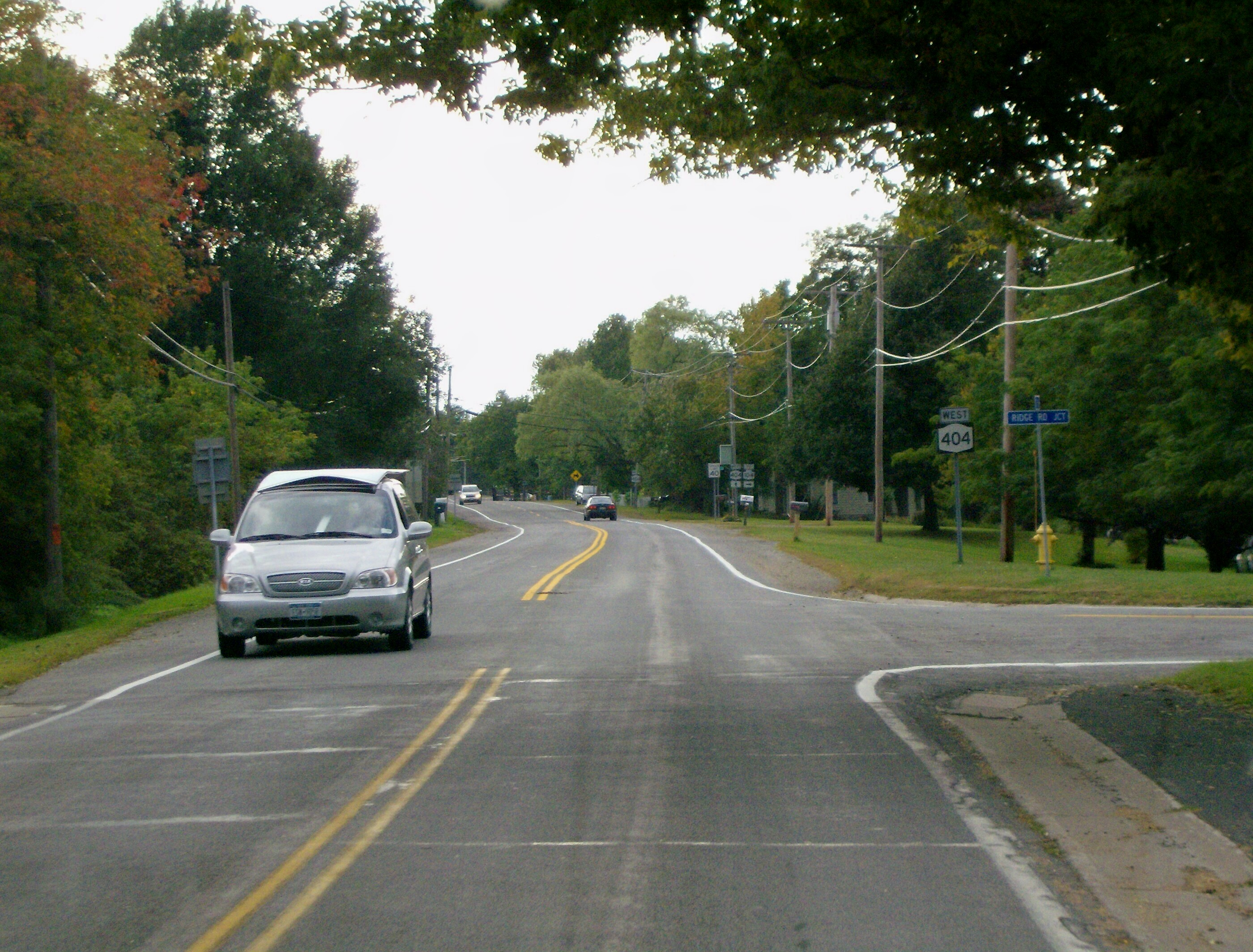 The junction of Ridge Road and Ridge Road Junction in Webster, New York. New York State Route 404 enters from the background on Ridge Road and leaves to the right (north) on Ridge Road Junction.